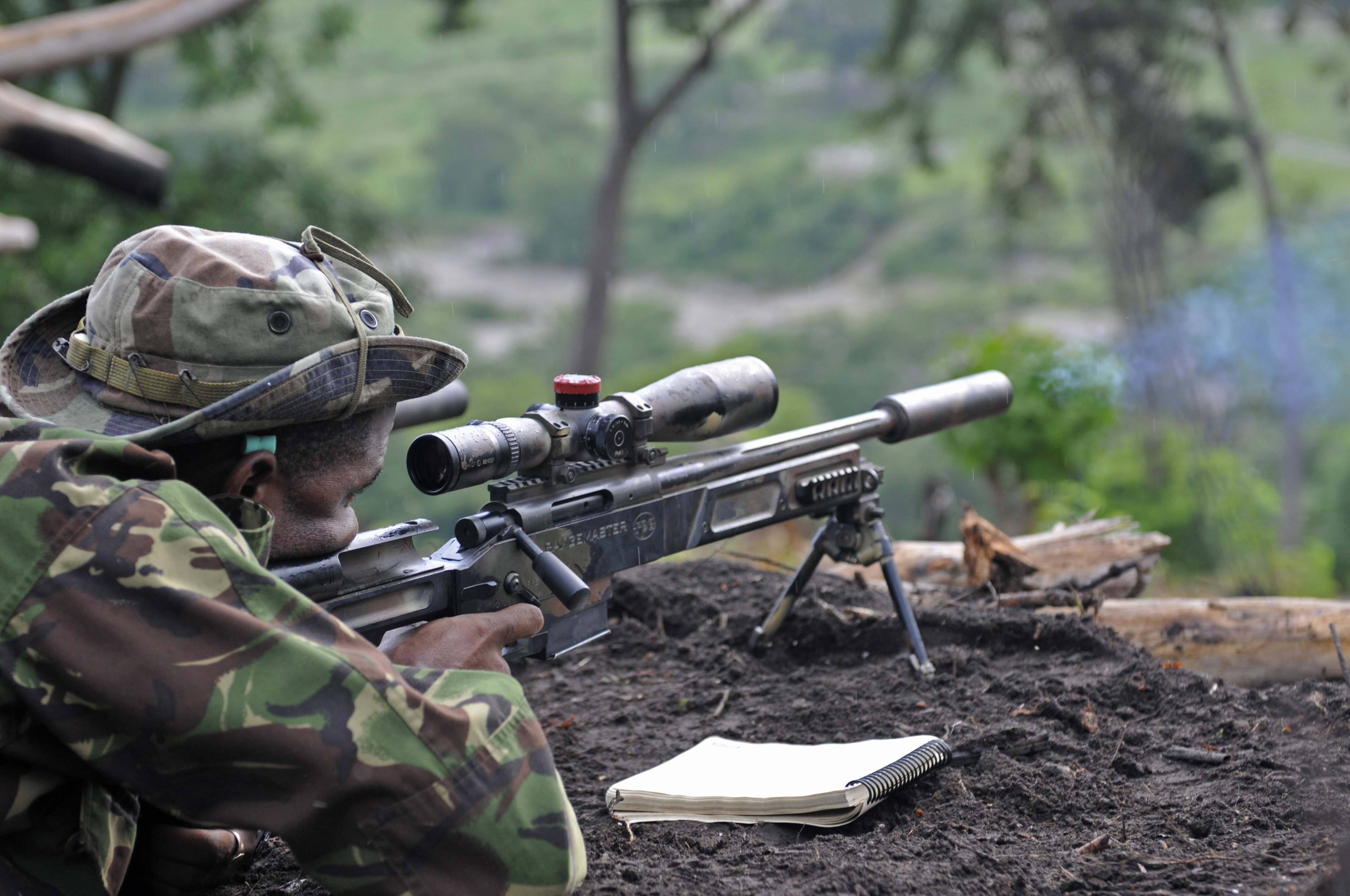 A sniper from the Brazilian team fires a round at a target during the angle shooting event at the Fuerzas Comando competition June 19. Fuerzas Comando, established in 2004, is a U.S. Southern Command-sponsored special operations skills competition and senior leader seminar, which is conducted annually in Central and South America and the Caribbean. (Photo by: Staff Sgt. Nicole L. Howell) 22nd Mobile Public Affairs Detachment Date Taken:06.19.2011 Location:ILOPANGO, SV Related Photos: The rifle in the picture is an RPA International Rangemaster.